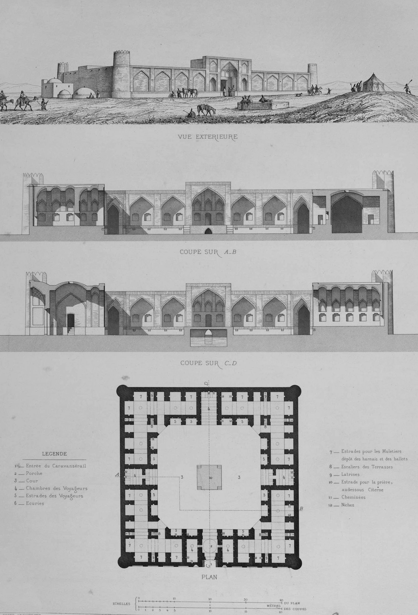 Pasangan caravanserai on the road from Tehran to Isfahan